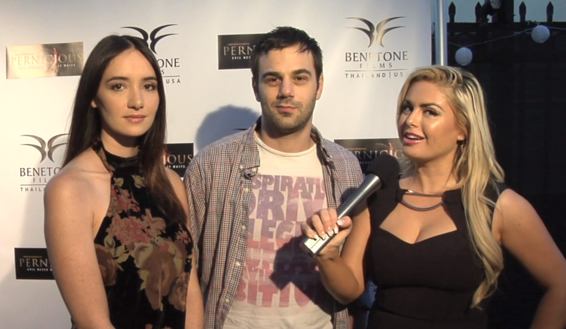 Left to right, actress and model Sara Malakul Lane, American actor, screenwriter, and director Jared Cohn interviewed by Tia Barr for RealTVFilms about their movie Pernicious at Arena Cinema Hollywood on Friday June 19, 2015.